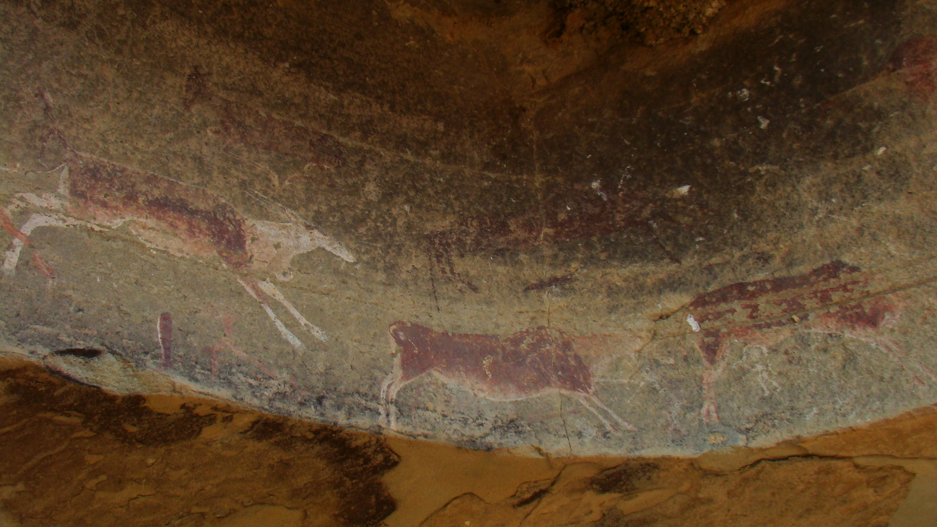 San Painting, Ukalamba Drakensberge, South Africa